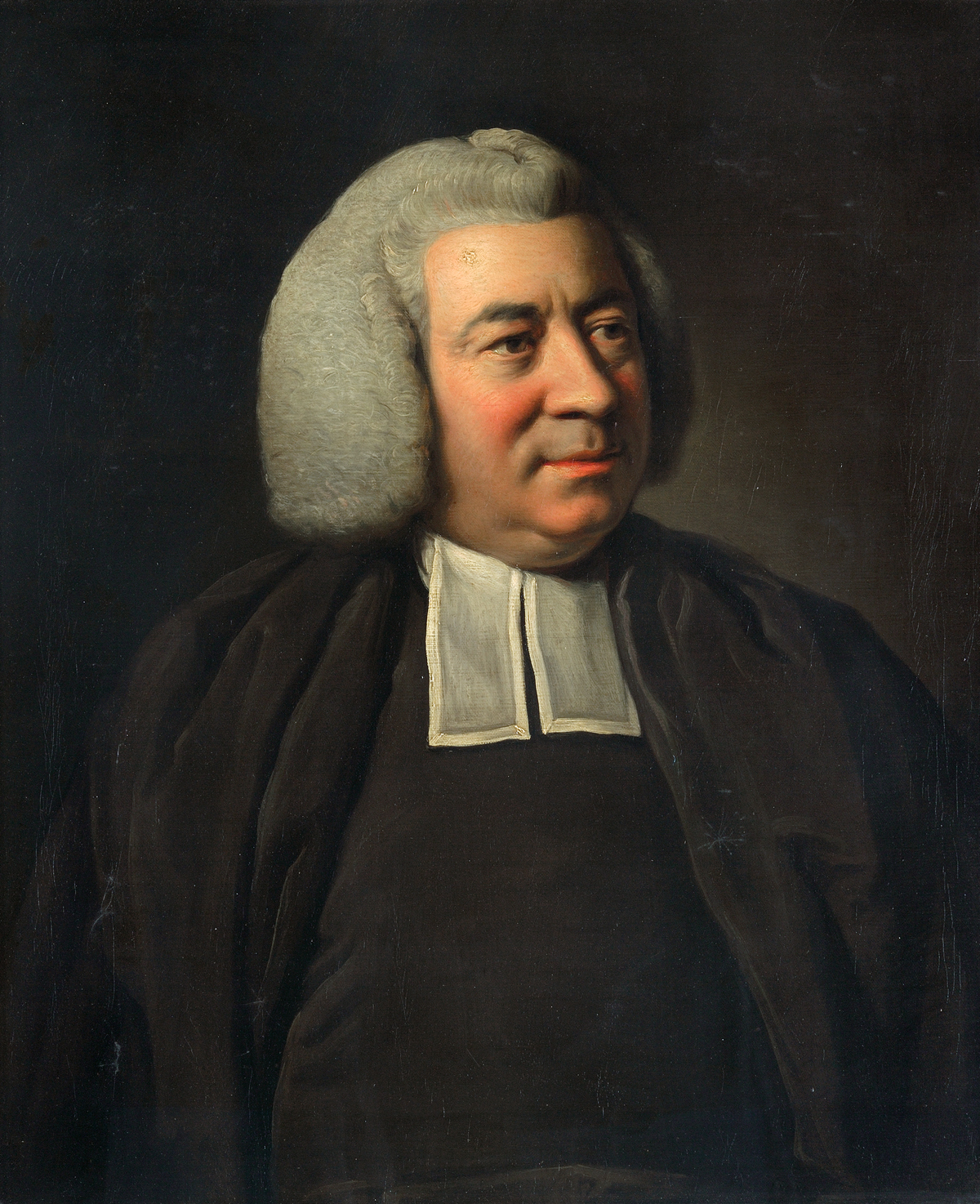 English churchman and antiquary